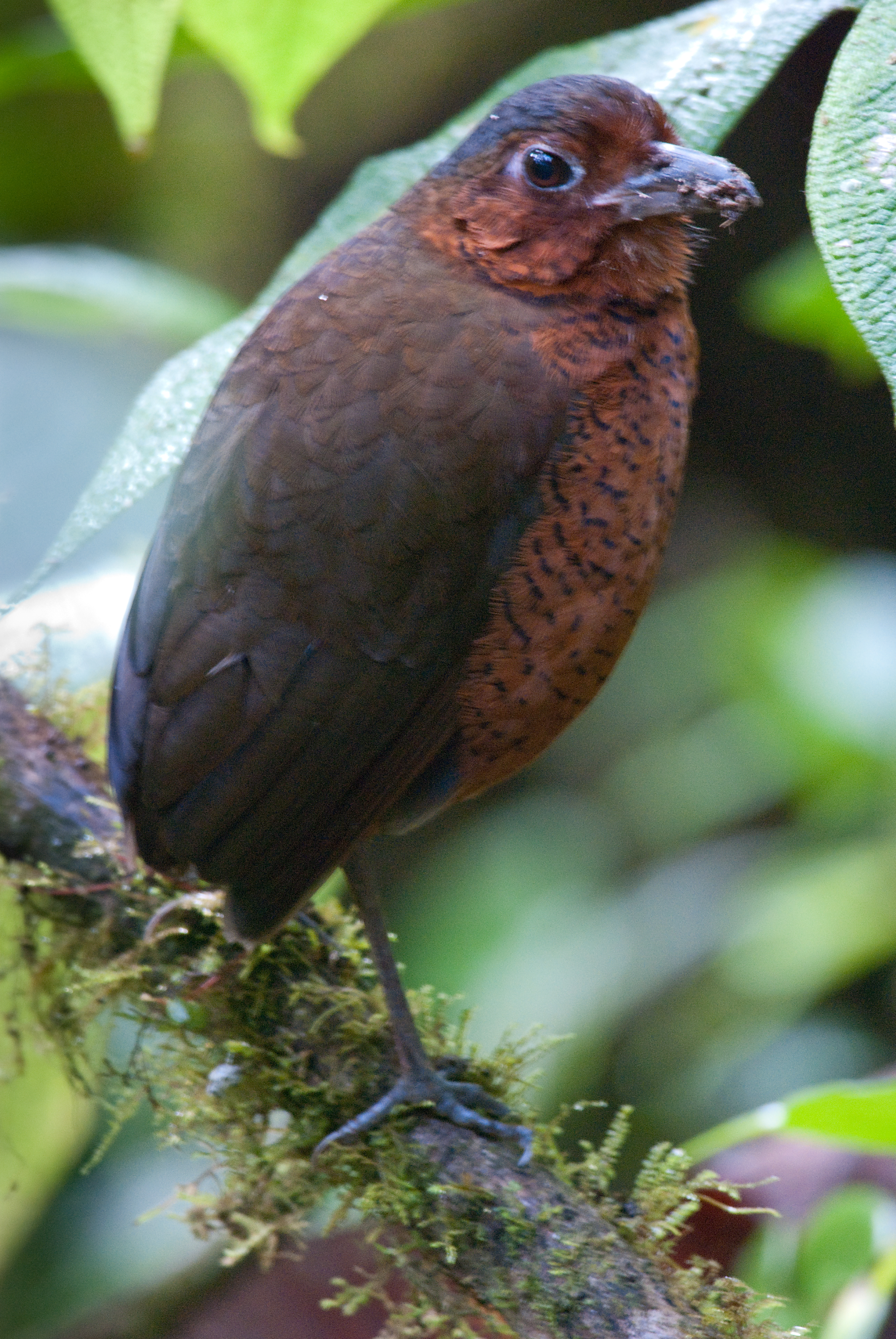 Giant Antpitta Grallaria gigantea at Reserva Paz de las Aves in Ecuador. This bird is known as Maria. At Paz de las Aves you can see a number of different species of hard to see antpittas.